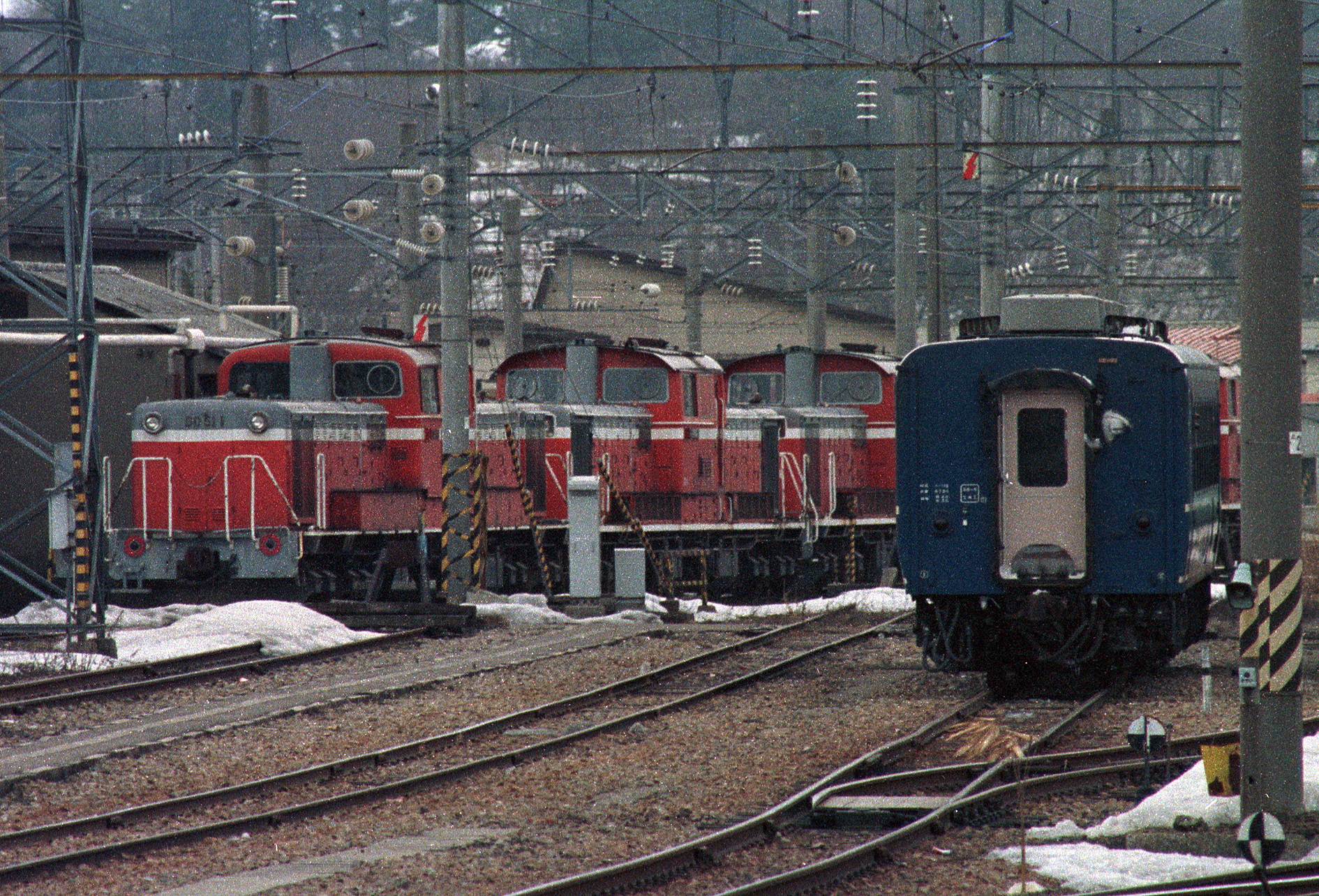 Prototype JNR Class DD51 diesel locomotive DD51 1 in storage at Akita Depot